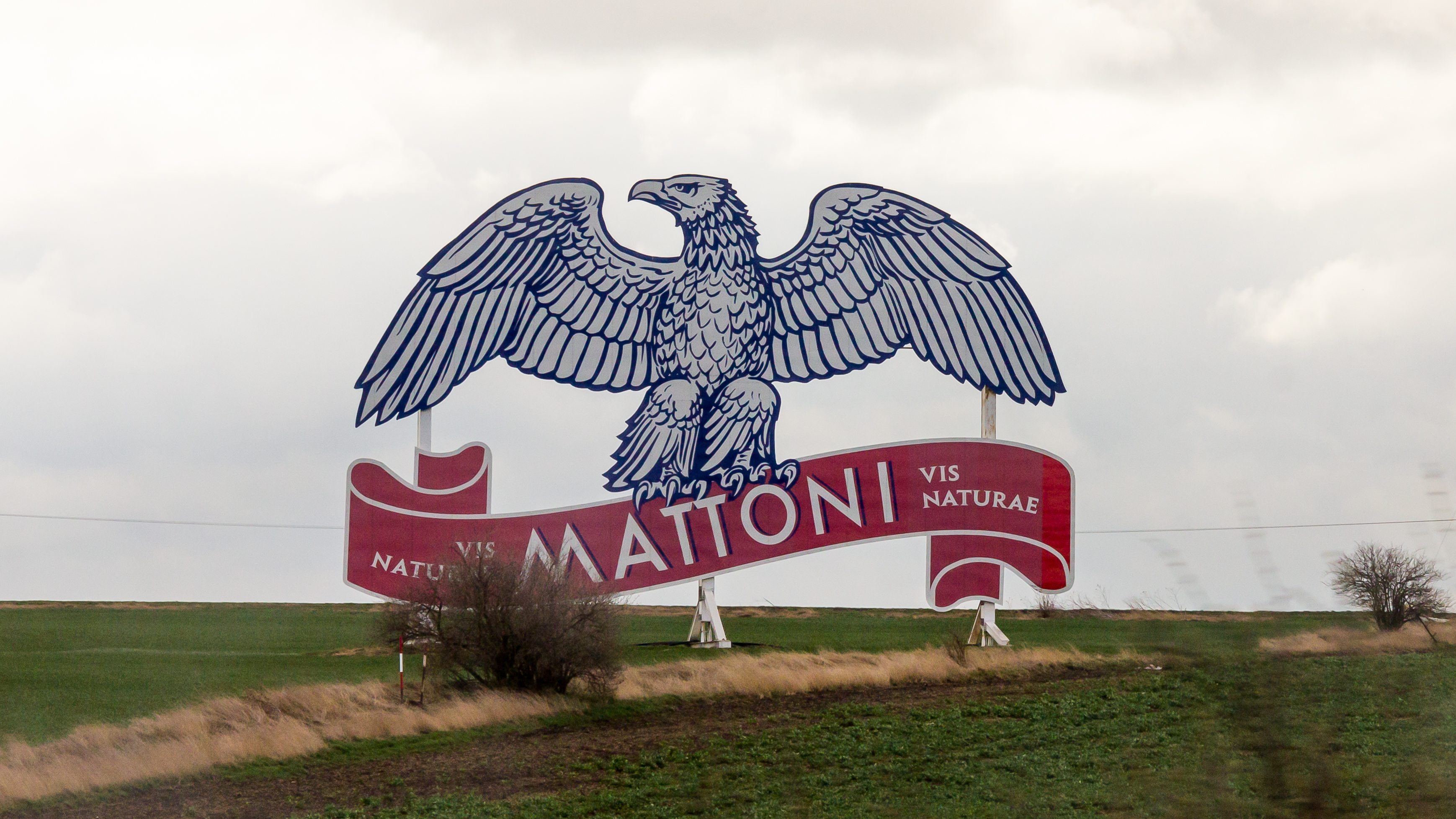 Big logo of Mattoni mineralwater as advertisment on a field near D8, Czech Republic